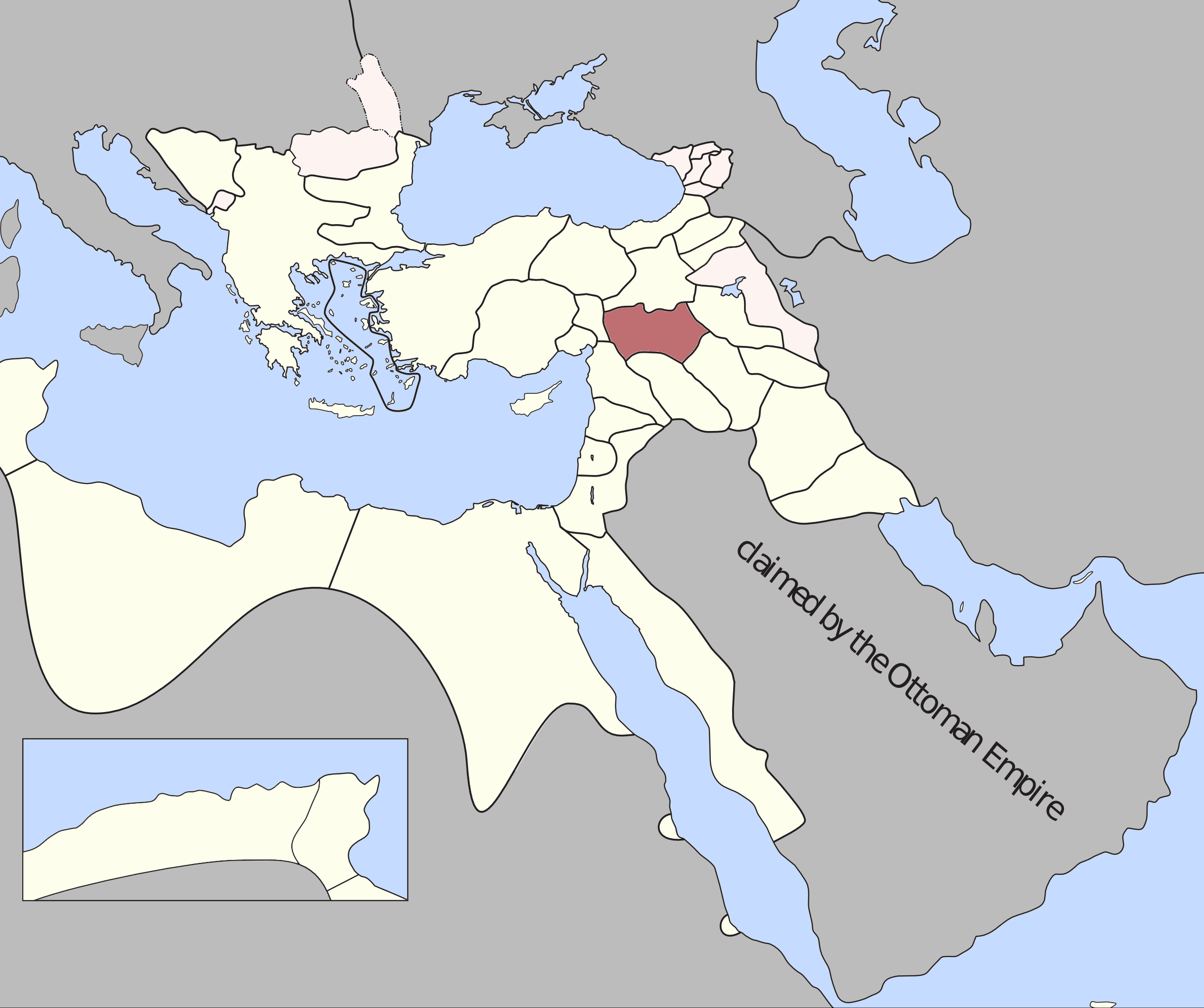 XY Eyalet, Ottoman Empire (1795). Source: A Brief History of the Late Ottoman Empire at Google Books By M. Sukru Hanioglu, Figure 1